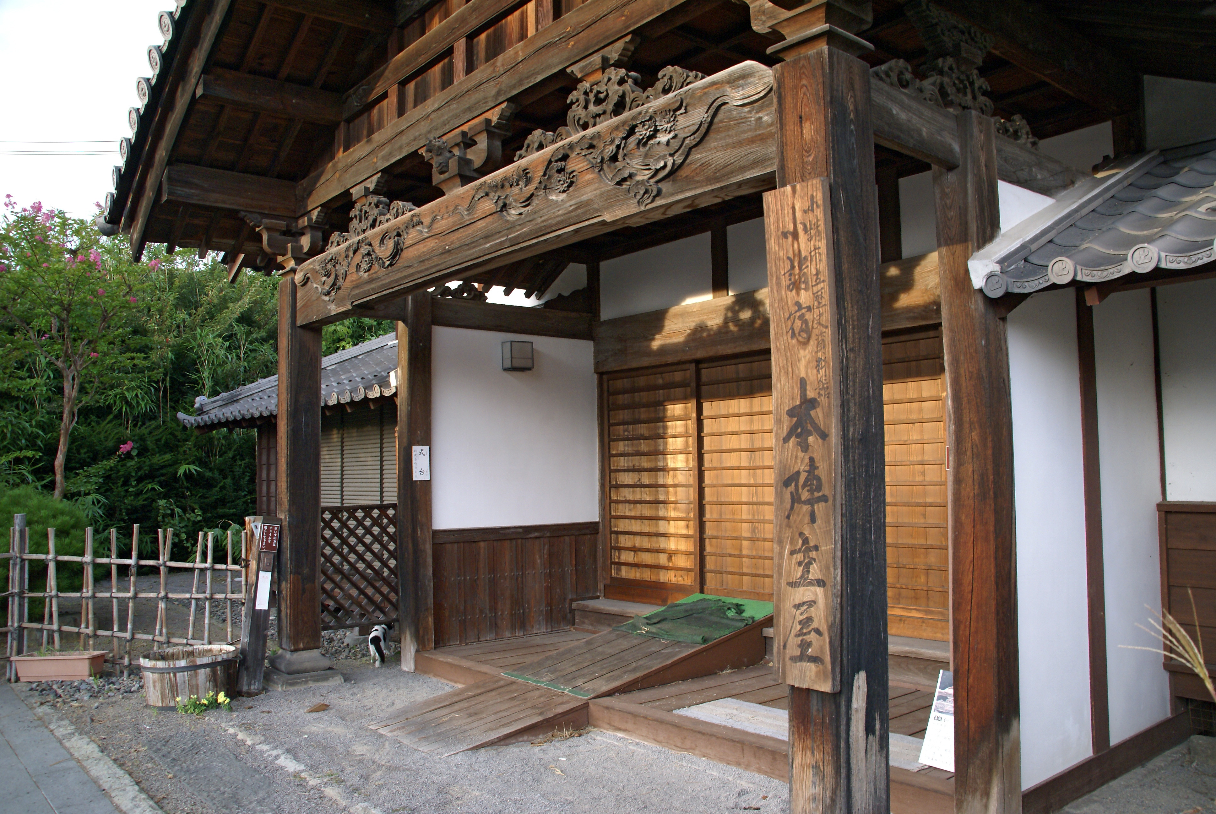 Old Komoro-honjin Omoya in Komoro, Nagano prefecture, Japan